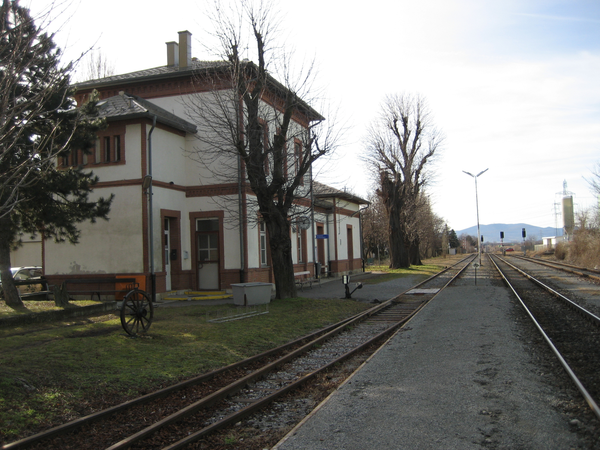 train station Maria Lanzendorf in Lower Austria